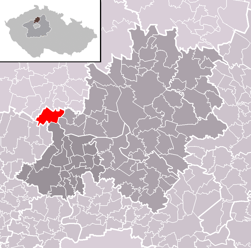 Location of Ledčice municipality within Mělník District and administrative area of Kralupy nad Vltavou as a Municipality with Extended Competence.